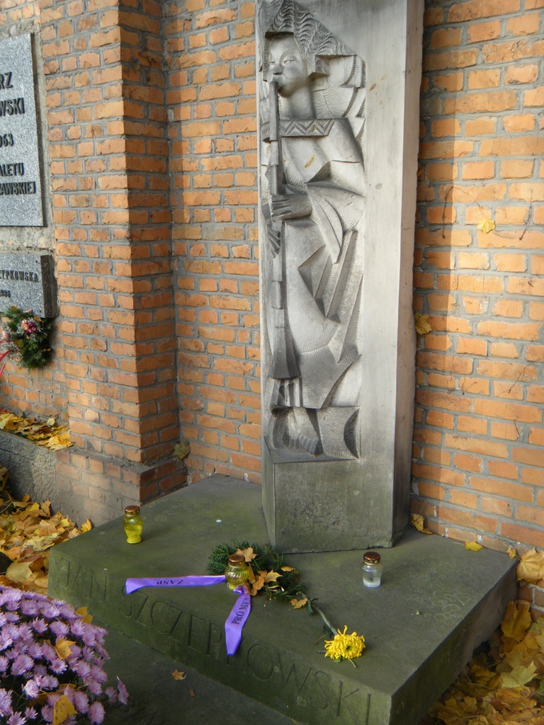 The grave of Jan Szczepkowski. Powązki Cemetery, Warsaw. The Avenue of Notables.